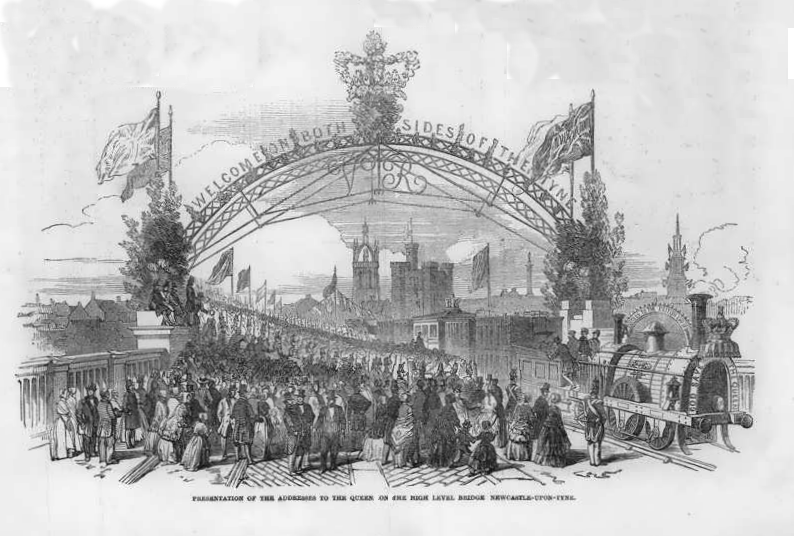 Engraving of the inauguration of the High Level Bridge, Newcastle, England by HMN QUeen Victoria on 28 September 1849. It was made by a contracted engraver for the Illustrated London News and published in that periodical